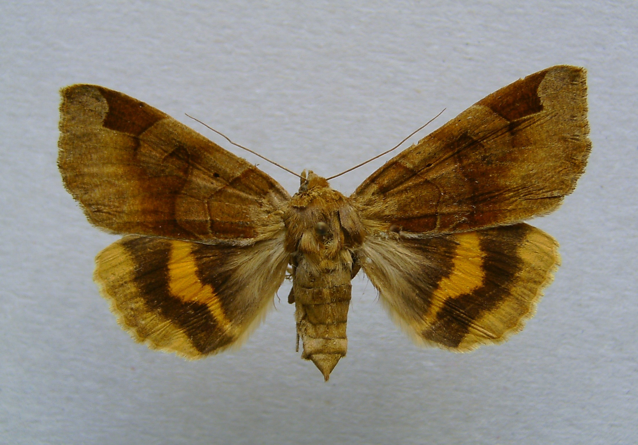 Chrysorithrum amata, Khabarovsk Krai